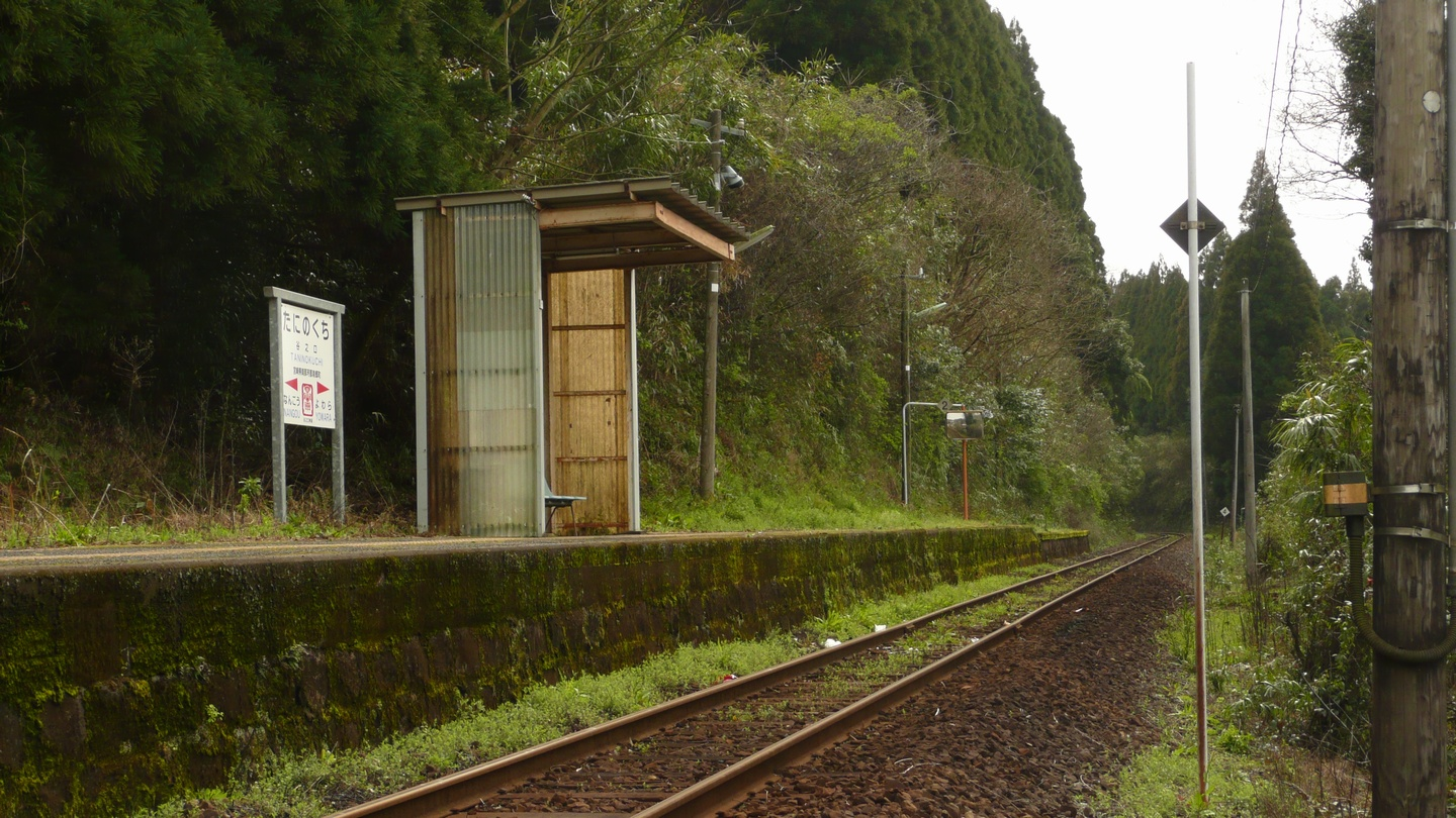 JR Kyushu Nichinan Line - Taninokuchi Station (Nango, Nichinan City, Miyazaki, Japan)